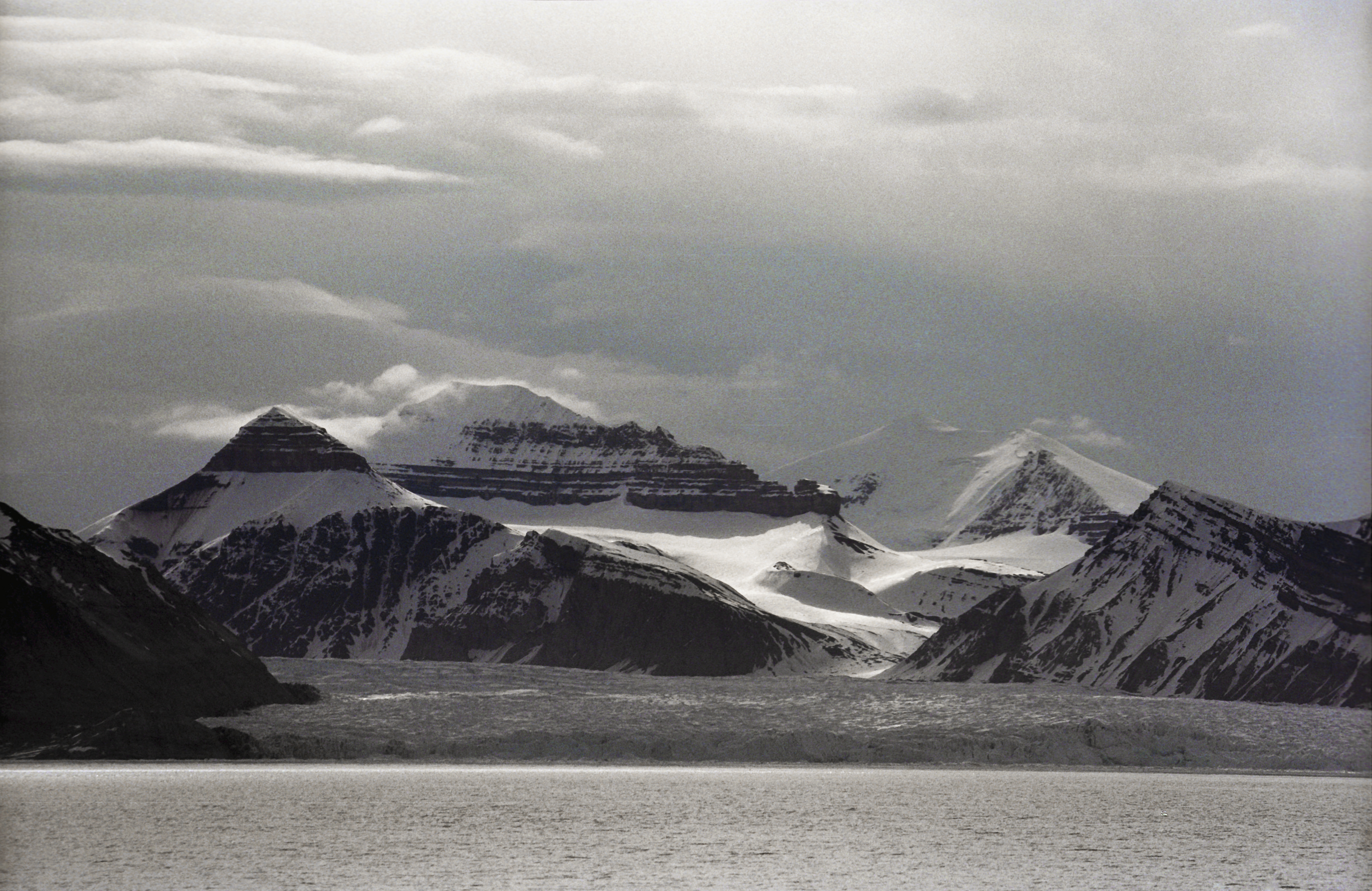 Svalbard, Ny-Ålesund, Kronebreen glacier. The mountain to the right is Mount Pretender, while the central mountains are the Tre Kroner mountaisn (Nora in the forground), and the Stavkyrkja mountain in the background.